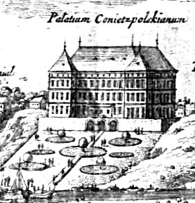 Koniecpolski Palace (today Presidential Palace). Detail of a Warsaw panorama, 1656.